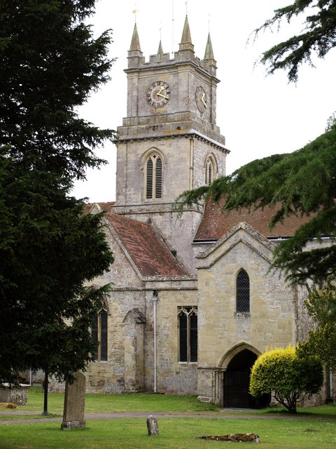 Church of St John the Baptist, Tisbury "The largest church in this part of Wiltshire" (Pevsner, 1963). A drab and gloomy day is perhaps best for a view of the northern side of the church, which has a remarkably long history and probably stands on the site of a Saxon monastery . For other photos, see 7123767 .